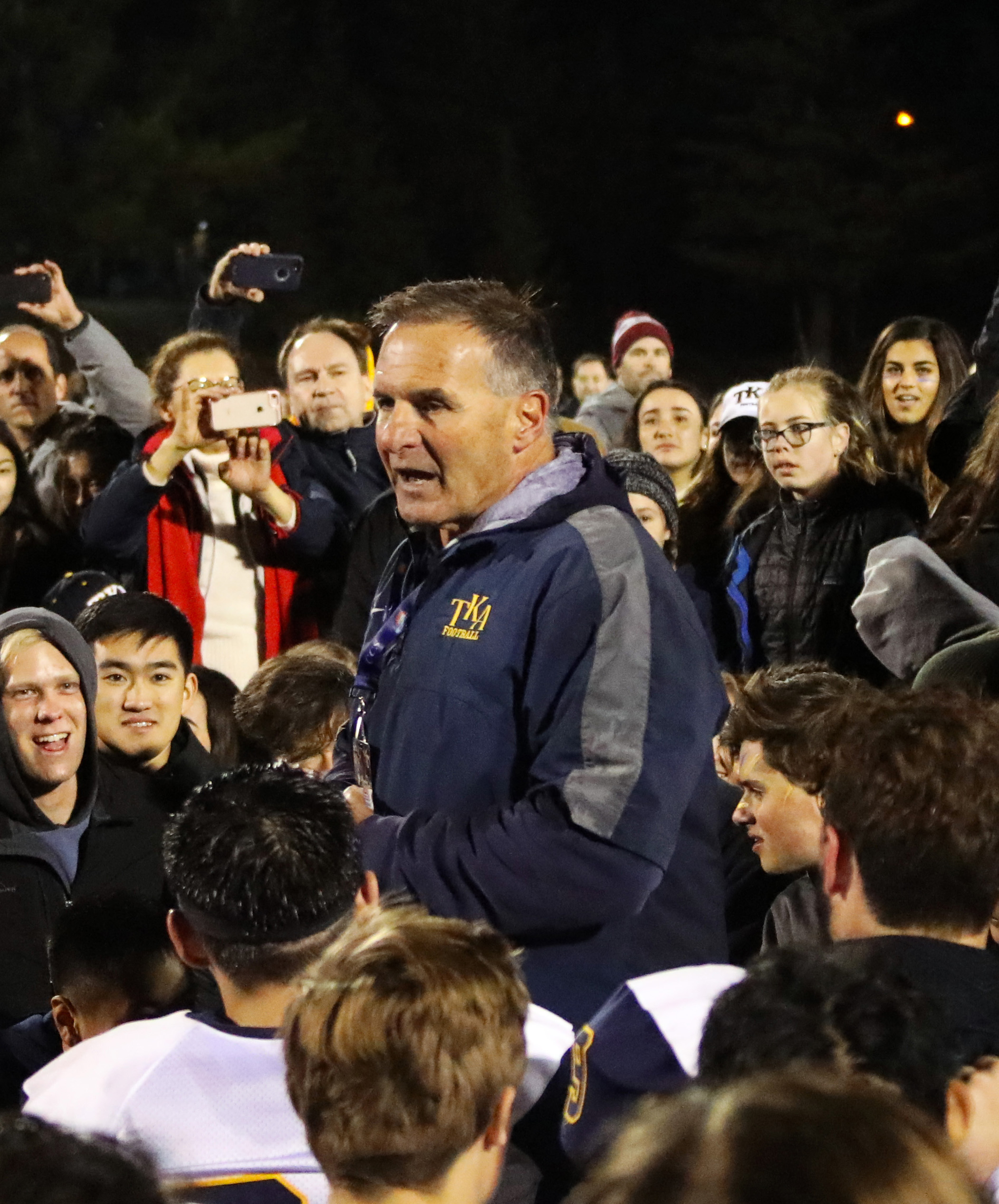 This is a photo of Coach Pete Lavorato, former defensive back for the Edmonton Eskimos, BC Lions and Montreal Concordes in the Canadian Football League. On December 1, 2018, Lavorato won the Central Coast Section (CCS) Division 5 varsity football championship as head coach at The King’s Academy in Sunnyvale, California. Lavorato previously coached varsity football at Sacred Heart School in Atherton, California, during which he won five other CCS titles. Photo dated December 1, 2018, at Campbell, California.